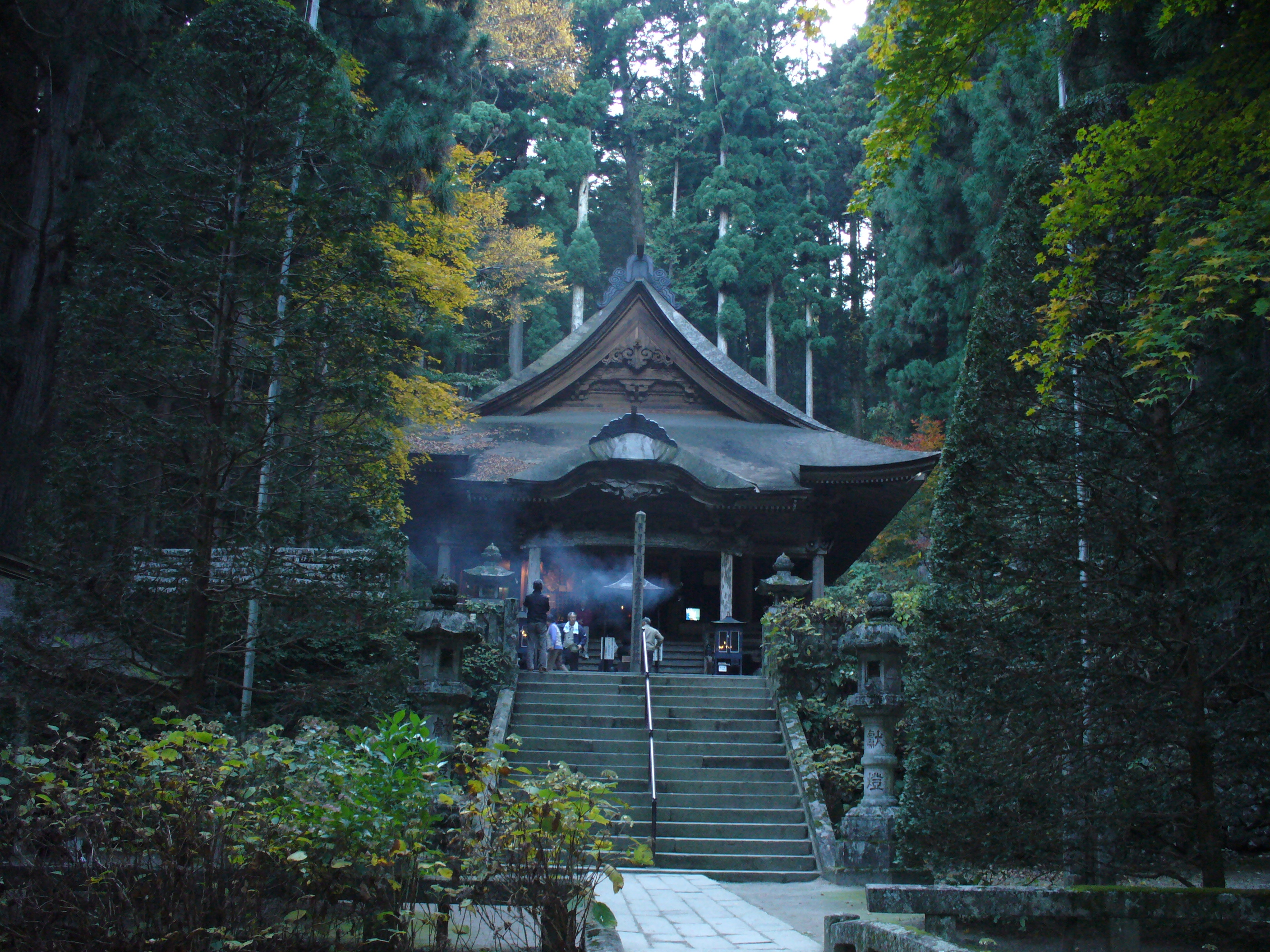 Photograph of Kouzenji Hondou, taken in Komagane city, Nagano, Japan.